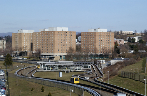 Personal Rapid Transit (PRT) tracks and Evansdale Residential Complex at West Virginia University